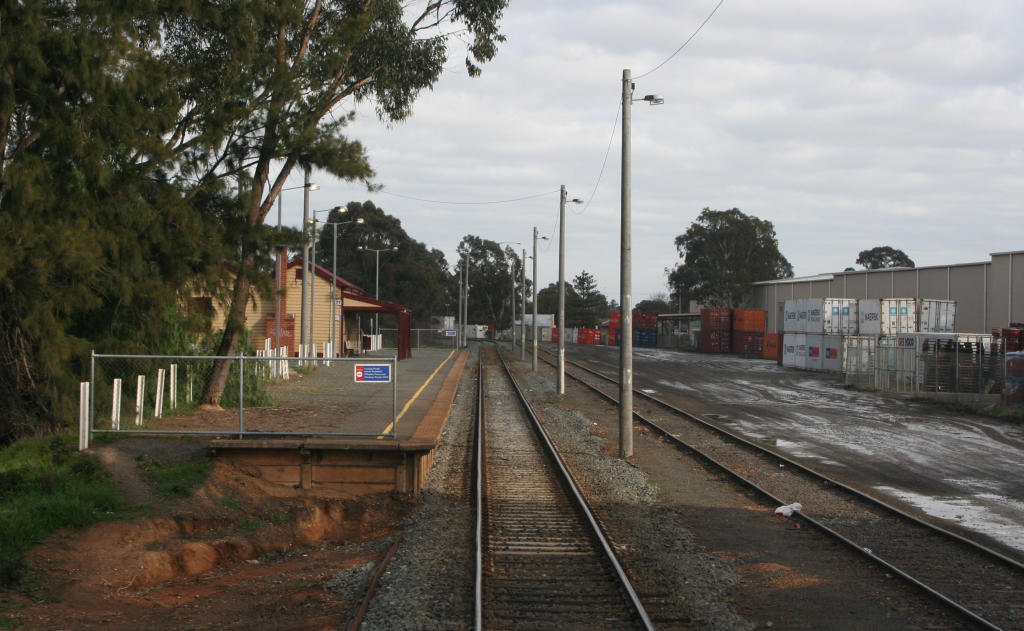 Mooroopna railway station, Victoria overview of passenger platform and container terminal